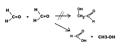 Cannizzaro Reaction of Formaldegyde